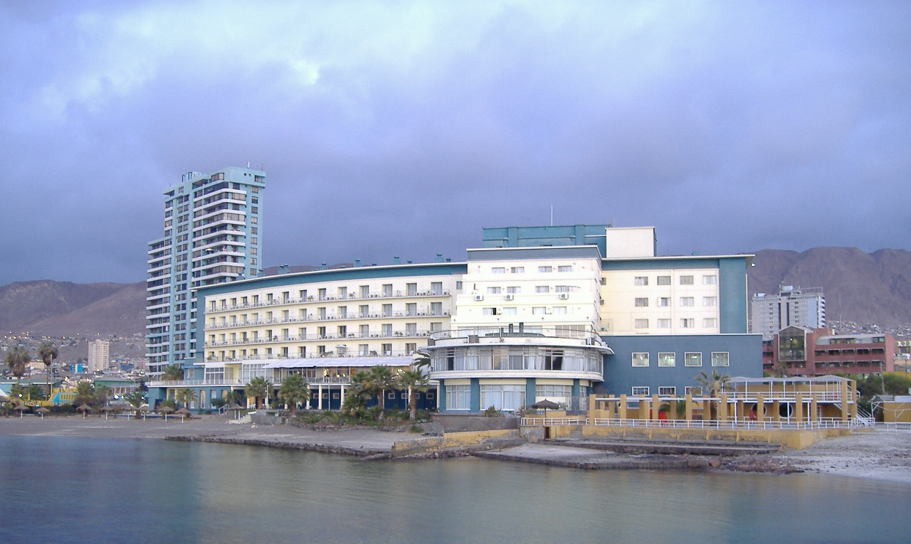 Hotel Antofagasta, part of the hotel chain Panamericana Hoteles.